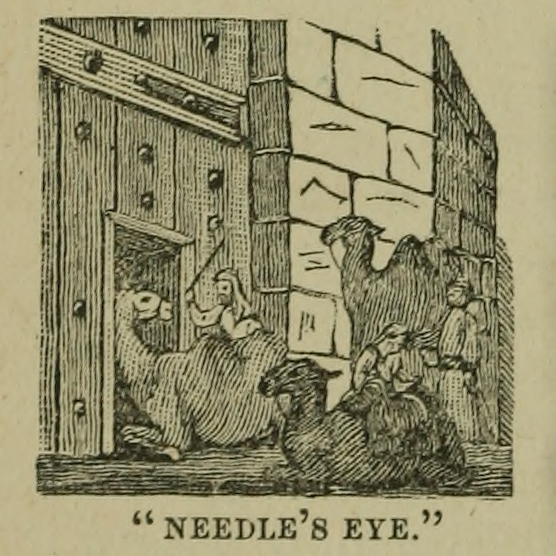 Needle's Eye. — Image from page 120 of “A Pictorial Commentary on the Gospel According to Mark” (1881) by Edwin W. Rice.jpg